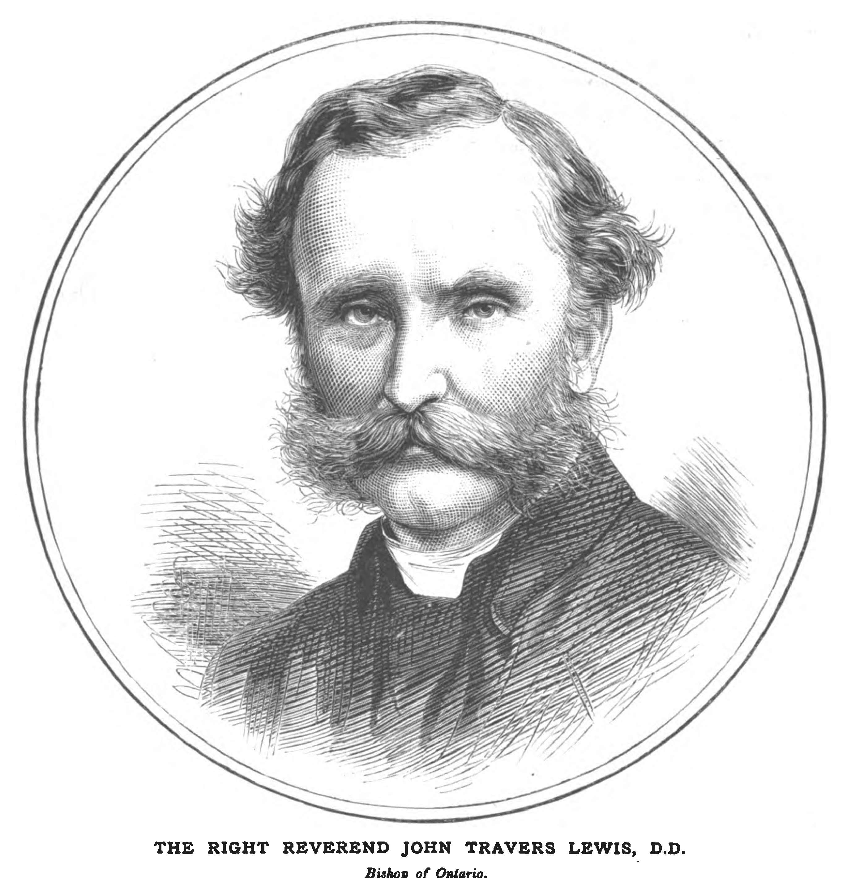 John Travers Lewis (June 20, 1825 – May 6, 1901) was a Church of England clergyman, archbishop, and author.